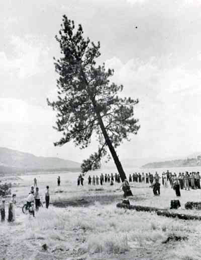 Bureau of Reclamation Supervising Engineer Frank A. Banks and State WPA Administrator Carl W. Smith felling the symbolic "last tree" in the Grand Coulee Dam reservoir area, on the site of old Kettle Falls.